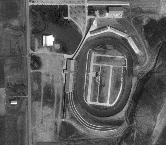 Eldora Speedway, Rossburg, Ohio